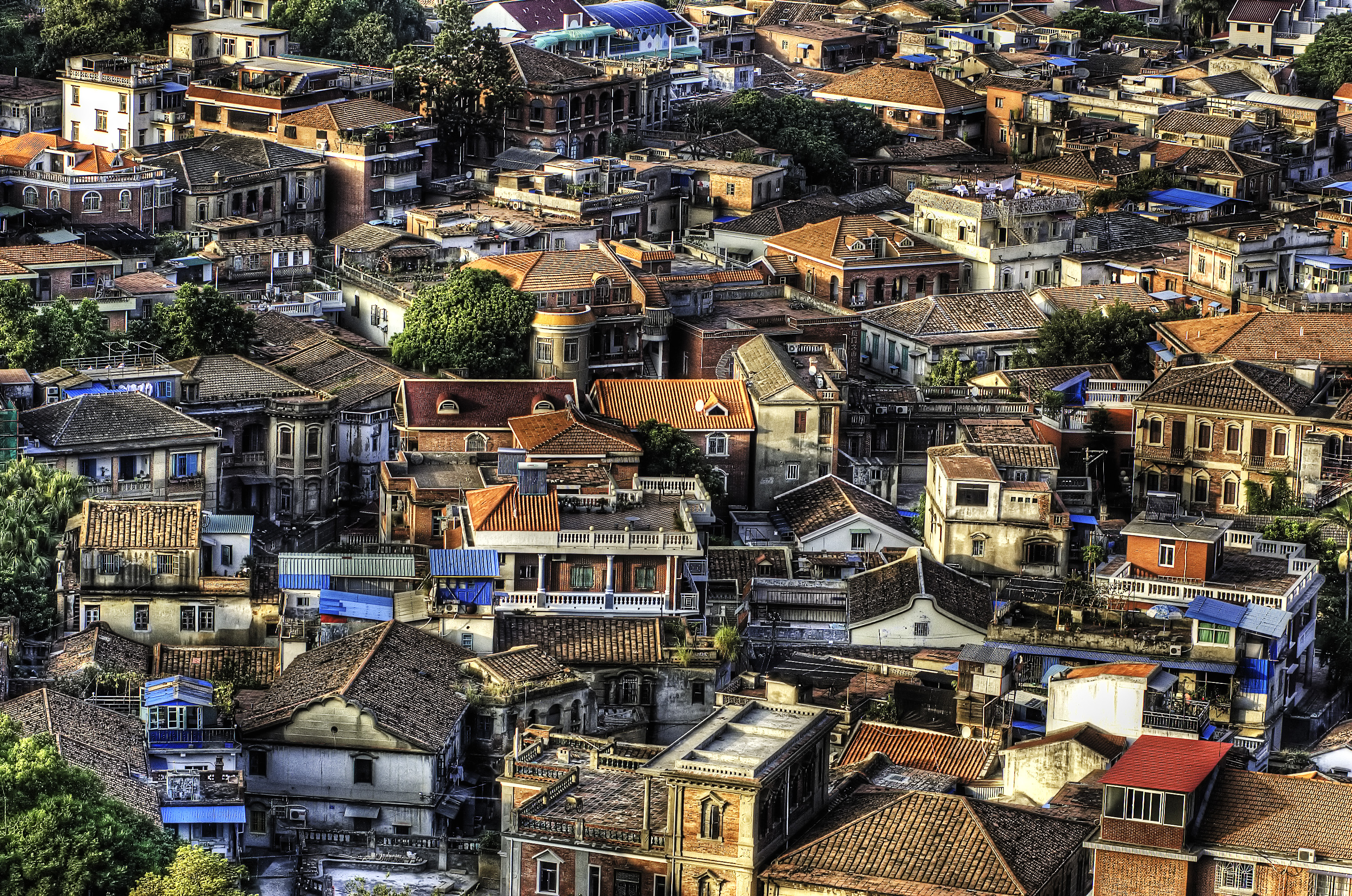 The Island of Gulangyu, Xiamen (Amoy), Fujian